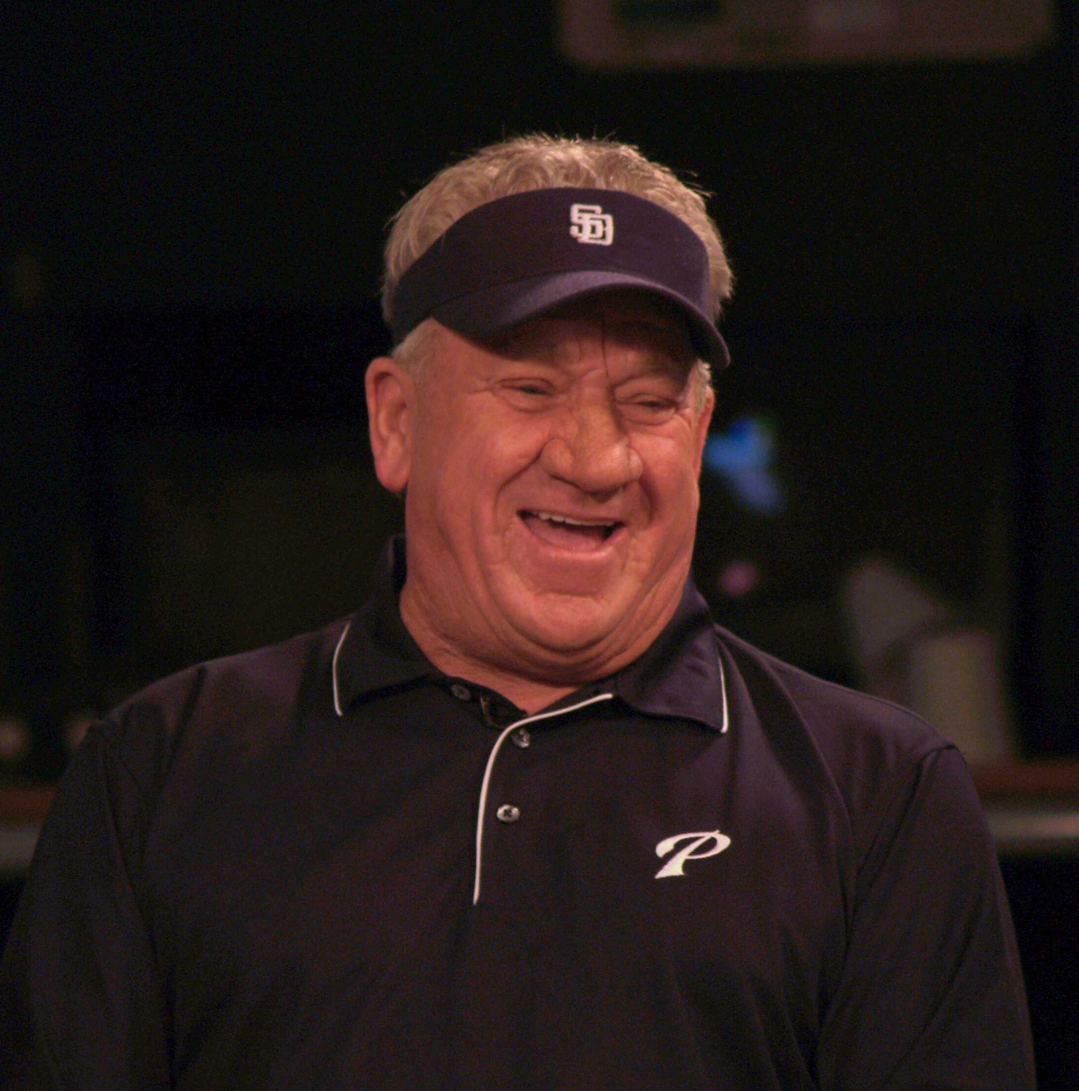 Cy Young Award-winning pitcher, Randy Jones.